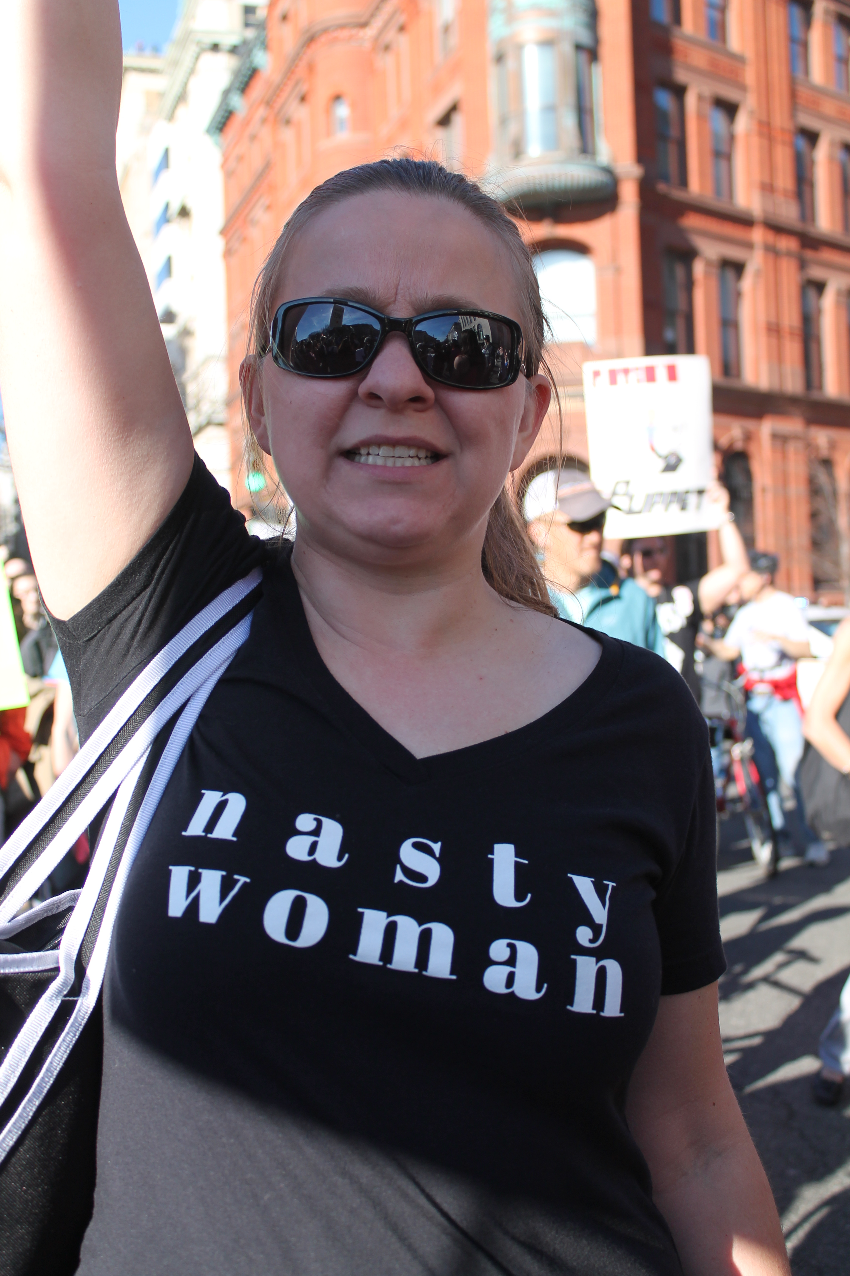 NOT MY PRESIDENT DAY MARCH en route to the White House on 15th Street at Pennsylvania and New York Avenue, NW, Washington DC on Monday afternoon, 20 February 2017 by Elvert Barnes Protest Photography Follow 20 February 2017 Washington DC NOT MY PRESIDENT DAY at F20 NMPD 2017 DC docu-project